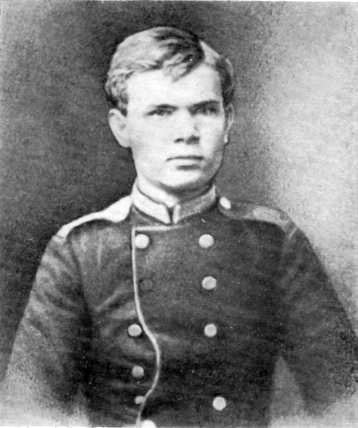 The picture shows Zygmunt Mineyko (1840-1925) when he was about 18 years old. At that time, he studied at Military School in St.Petersburg.